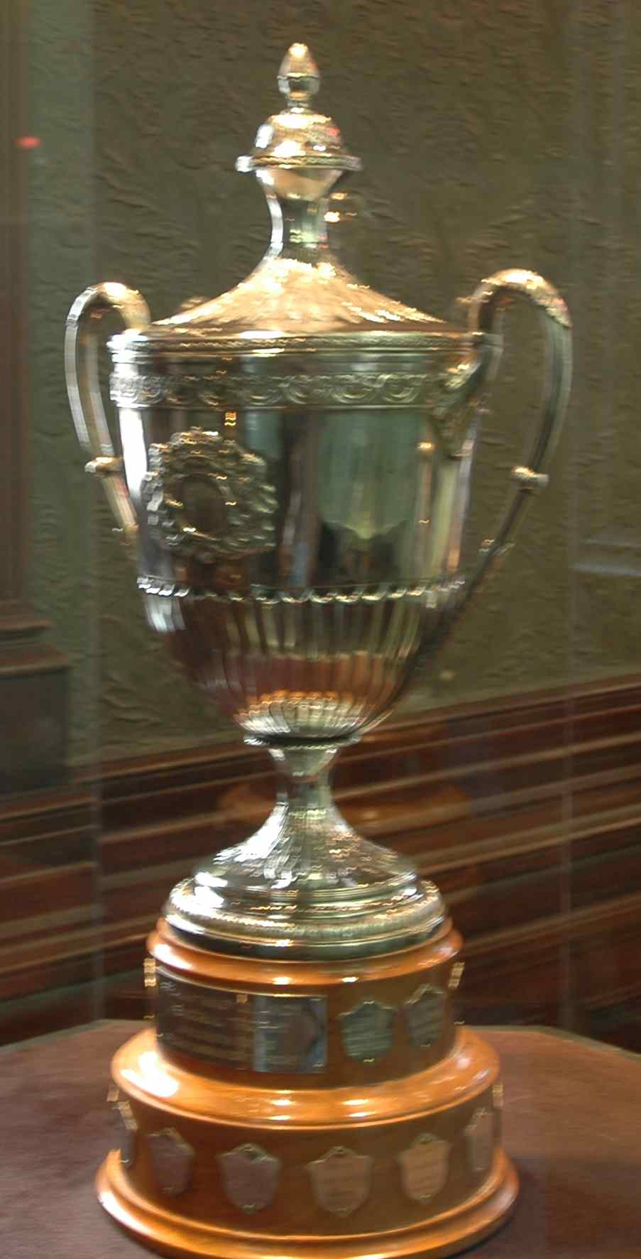 King Clancy Trophy in der Hall of Fame in Toronto